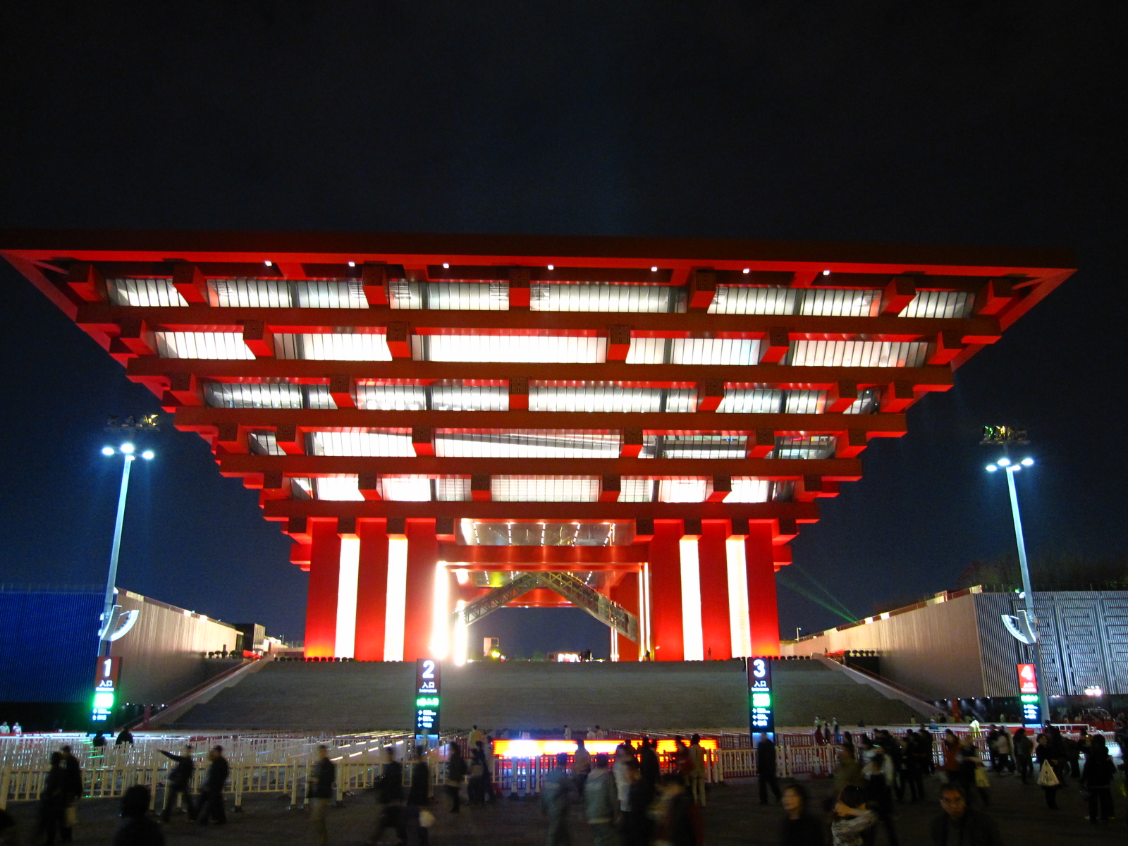 China Pavilion of Expo 2010